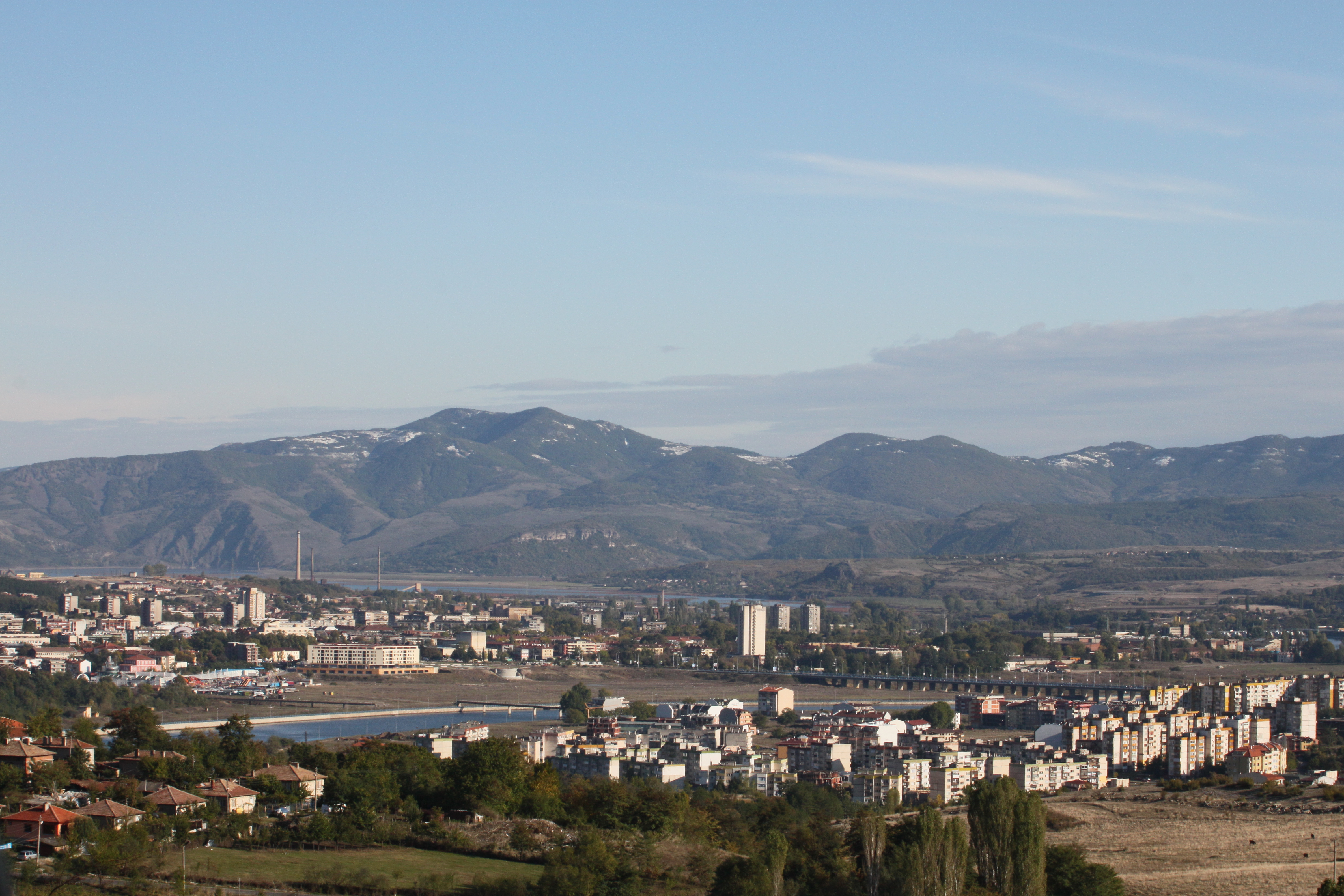 Kardzhali , Bulgaria